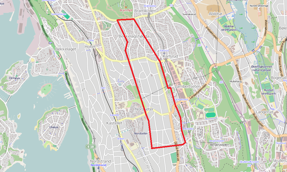 Map of Søndre Hellerud